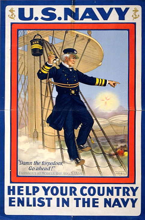 World War I recruitment poster featuring American admiral David Farragut (1801-1870). Caption: "U.S. Navy. Help your country. Enlist in the Navy. 'Damn the torpedoes, go ahead!' Farragut at Mobile Bay, Aug. 5, 1864."